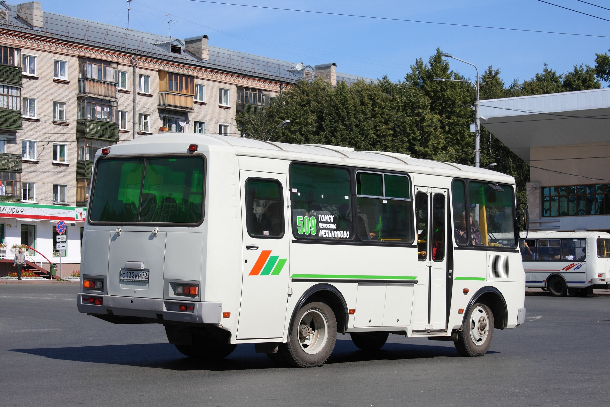 PAZ-32053 in Tomsk, Russia